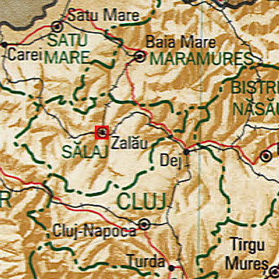 Map of Zalău Municipality, Romania.